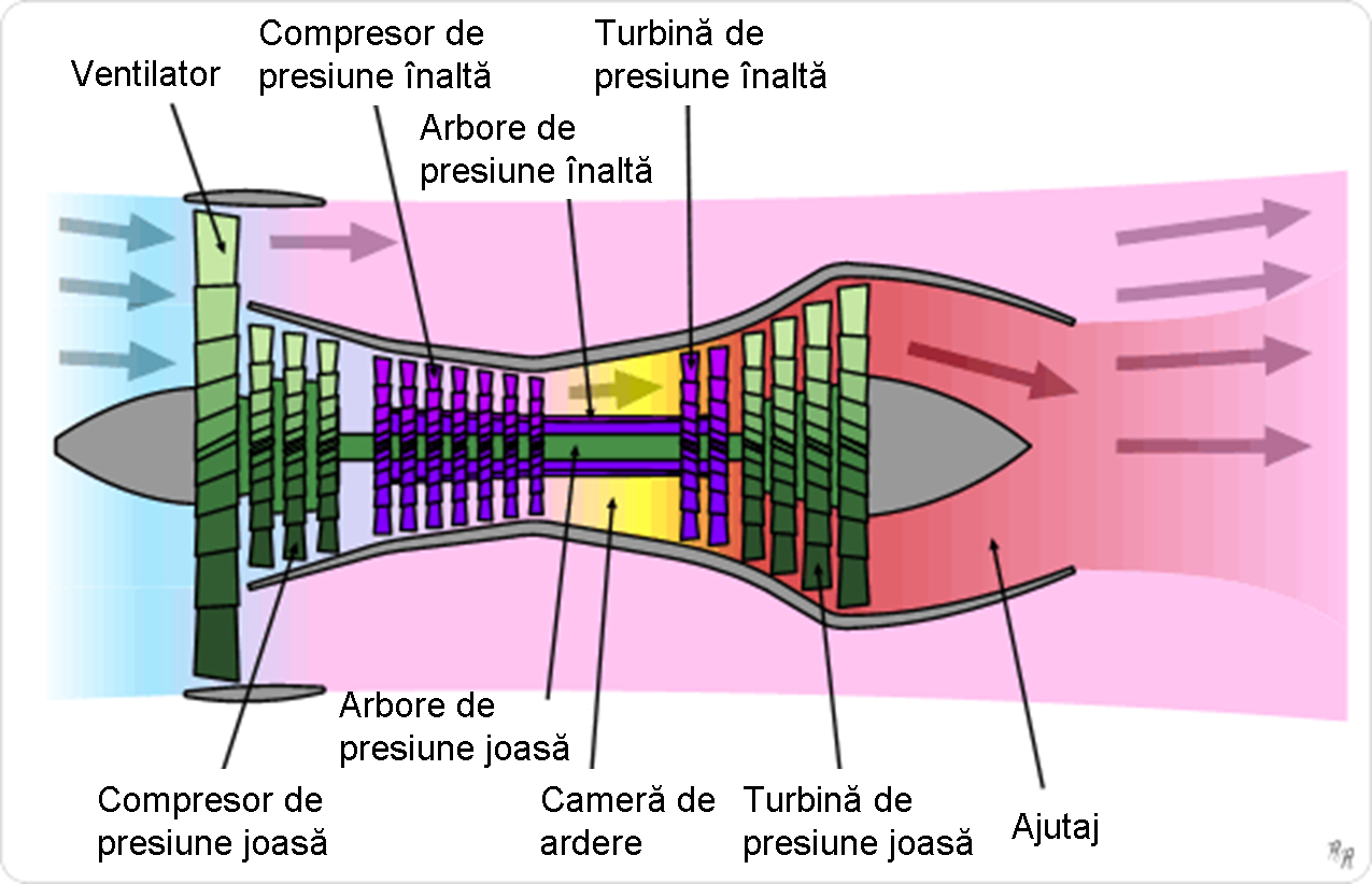 Schematic diagram illustrating the operation of a 2-spool, high-bypass turbofan engine, with LP spool in green and HP spool in purple. Drawn using XaraX software by Emoscopes 18:17, 13 December 2005 (UTC) Translated by Giku